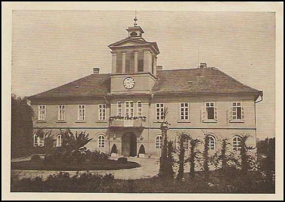 Chateau Nimerice in year 1940